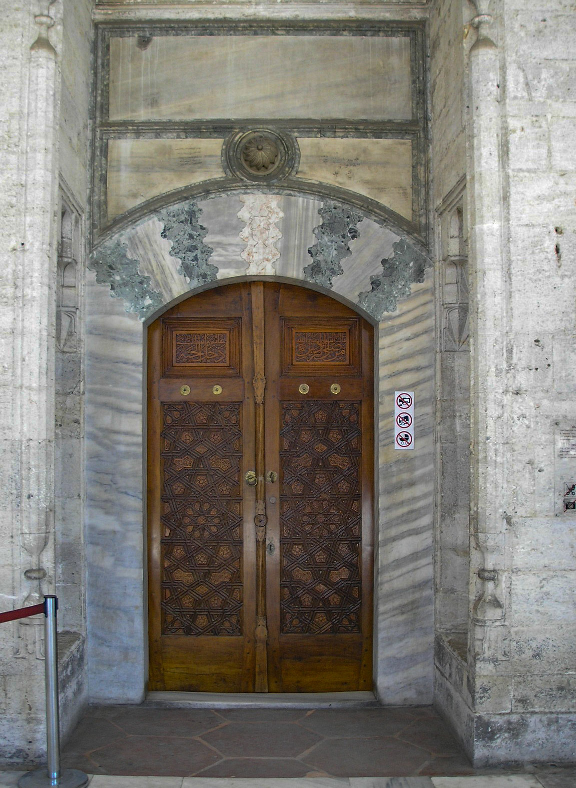 One of the doors leading into the Conqueror’s Pavilion, also called the Conqueror's Kiosk (Fatih Köşkü) and the arcade of the pavilion in front is one of the finest pavilions built under Sultan Mehmed the Conqueror and one of the oldest buildings inside the palace. It was built circa in 1460, when the palace was first constructed, and was also used to store works of art and treasure. Until today it houses the Imperial Treasury.